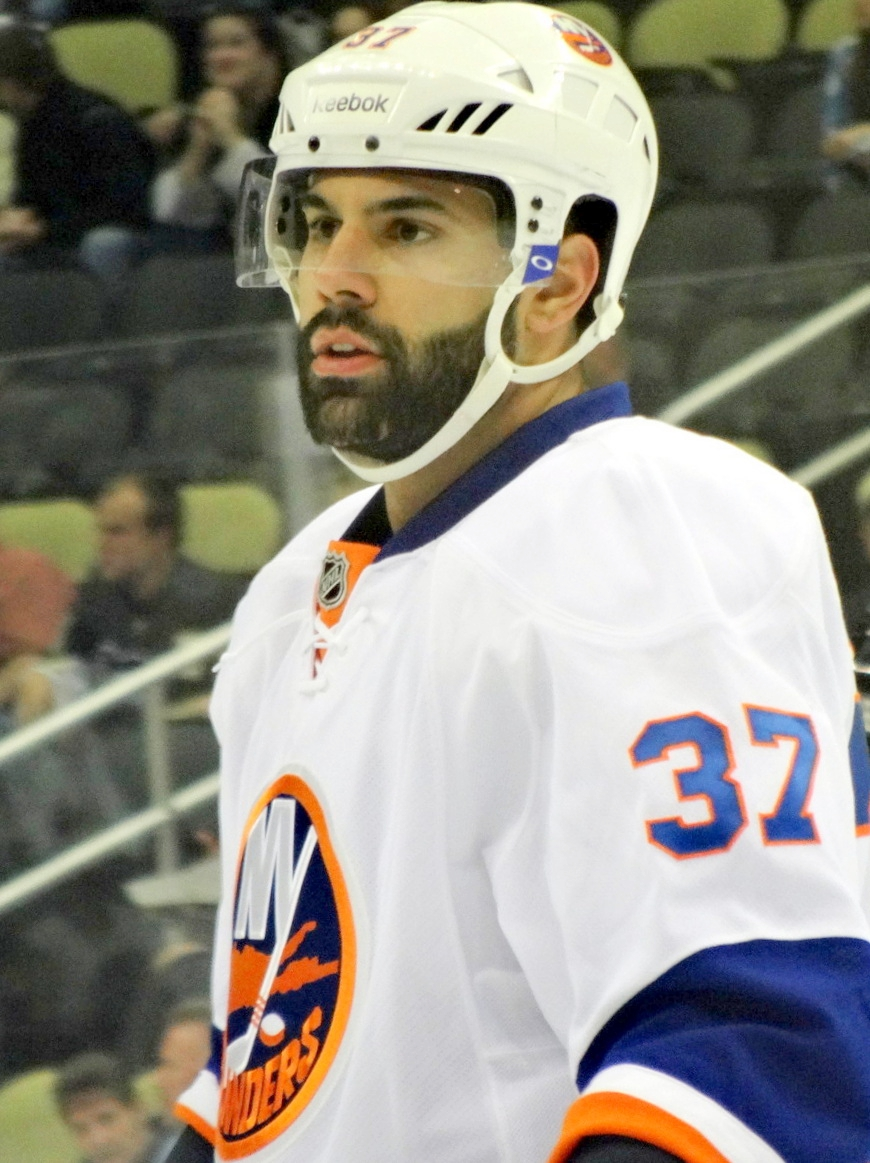 New York Islanders defenseman Brian Strait during round one, game five of the 2013 Stanley Cup playoffs against the Pittsburgh Penguins, May 9, 2013 at Consol Energy Center.